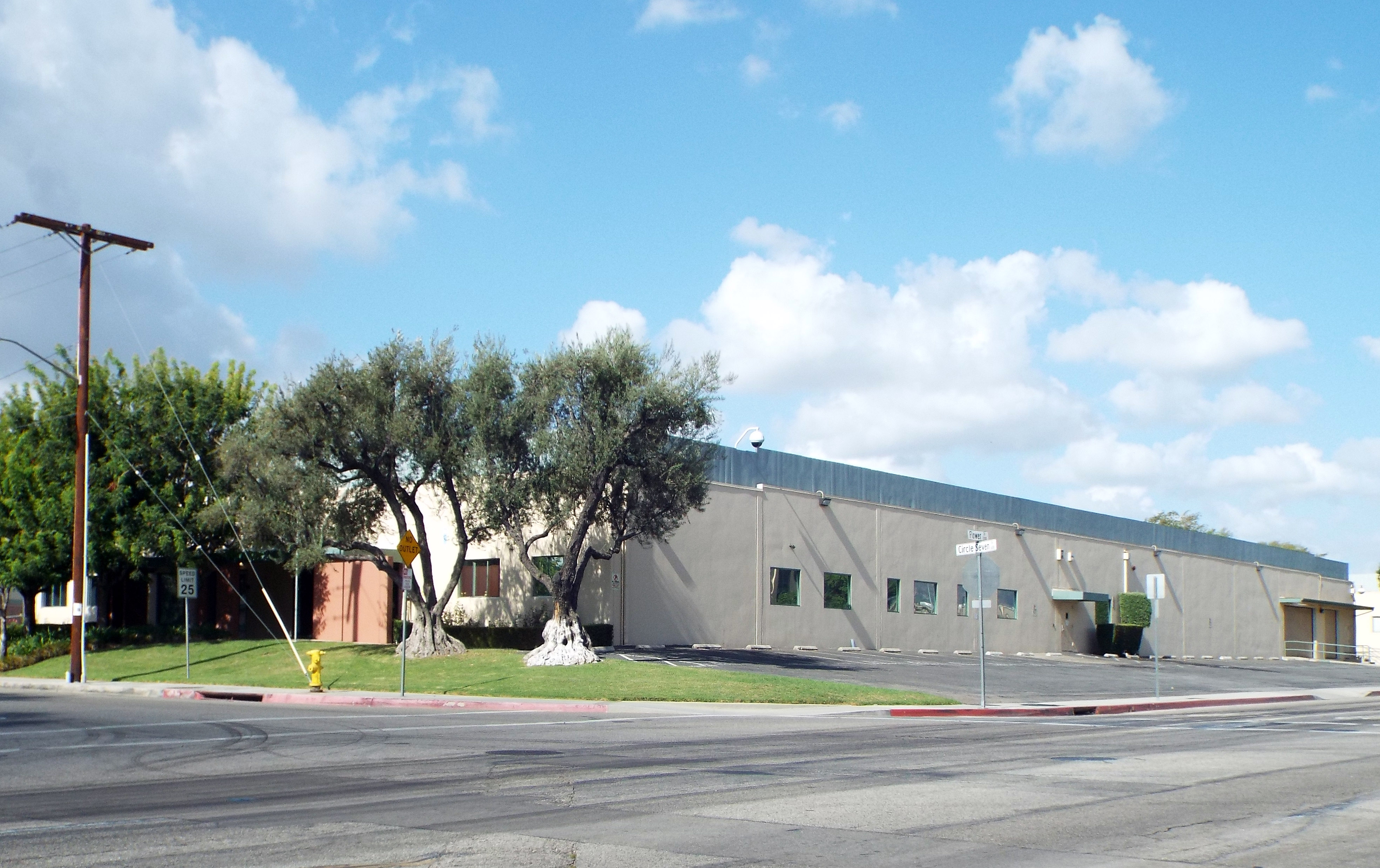 623 Circle Seven Drive, Glendale, California. Photographed on September 27, 2014 by user Coolcaesar.